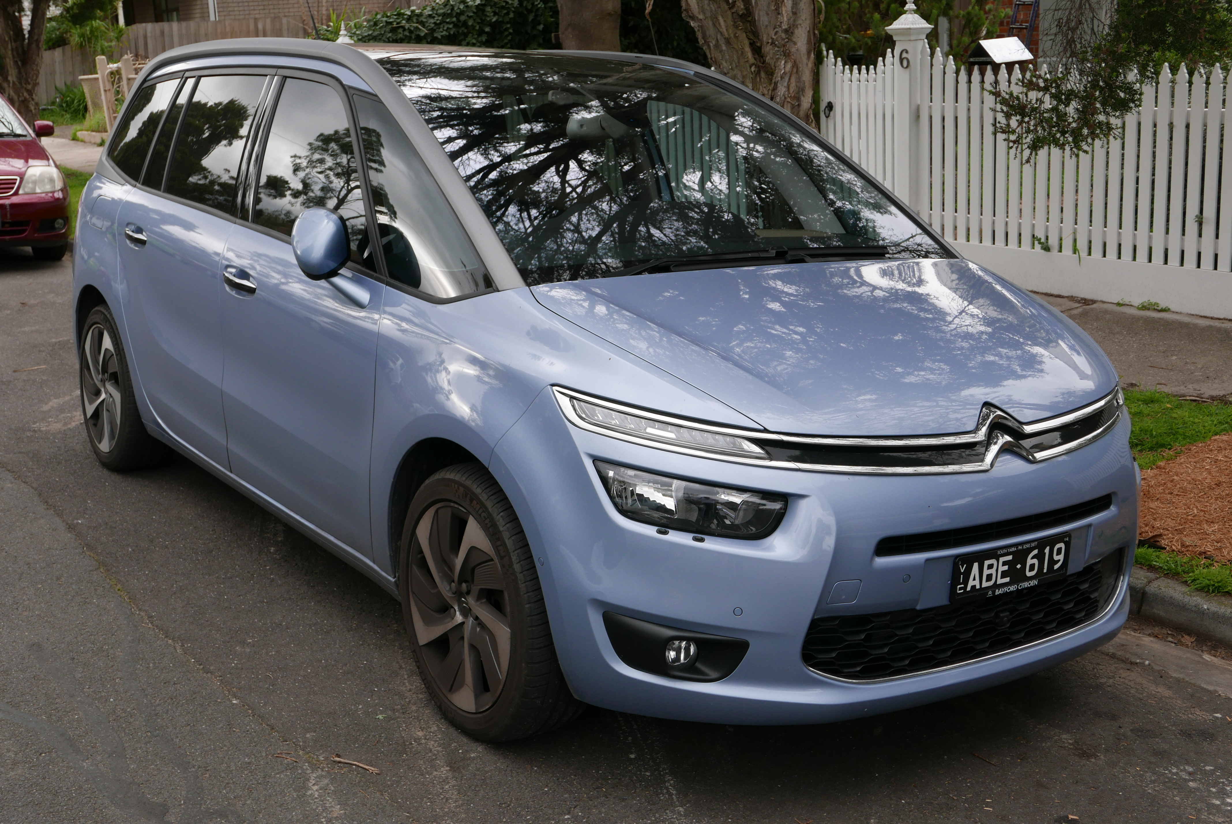 2014 Citroën Grand C4 Picasso (B7) Exclusive van. Photographed in Northcote, Victoria, Australia. Vehicle registration enquiry results Jurisdiction Victoria Registration ABE619 Chassis code VF73AAHXTDJ886060 Engine code 10DYZP4002033 Compliance date 2014-03 Year of manufacture 2014